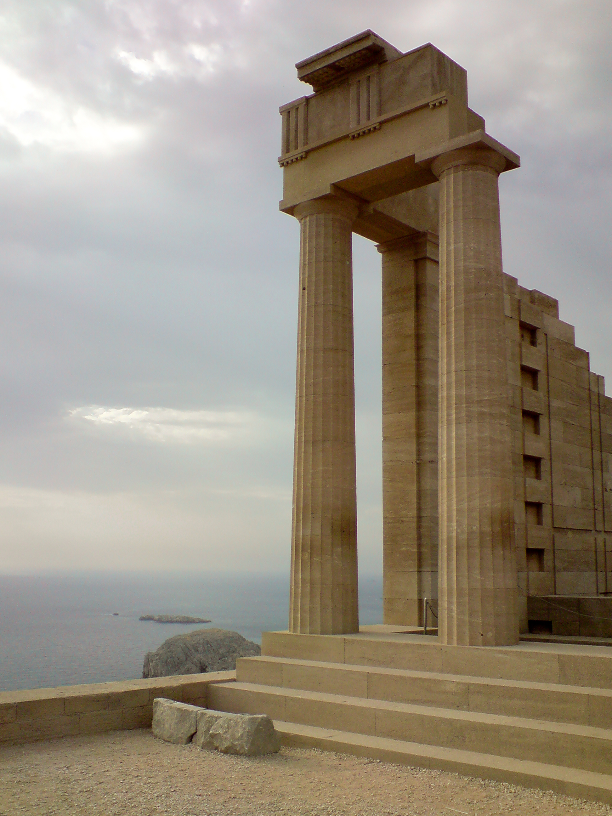 Doric Temple of Athena Lindia in Lindos, Greece, photographed in October, 2009.